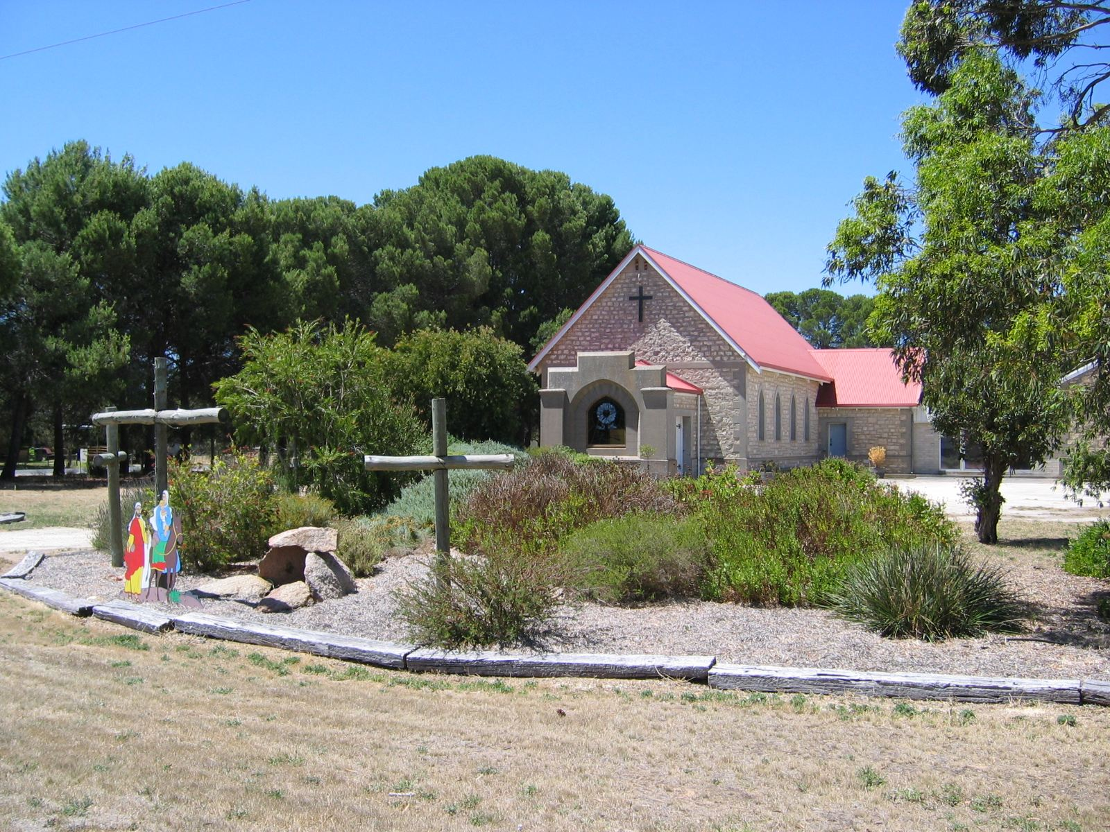 Outside view of the Coonalpyn Lutheran Church church from the Dukes Highway in Coonalpyn, South Australia